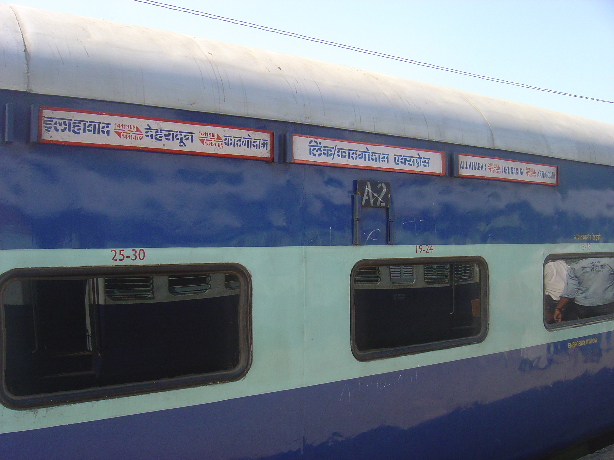 14119 Kathgodam Express - AC 2 tier coach